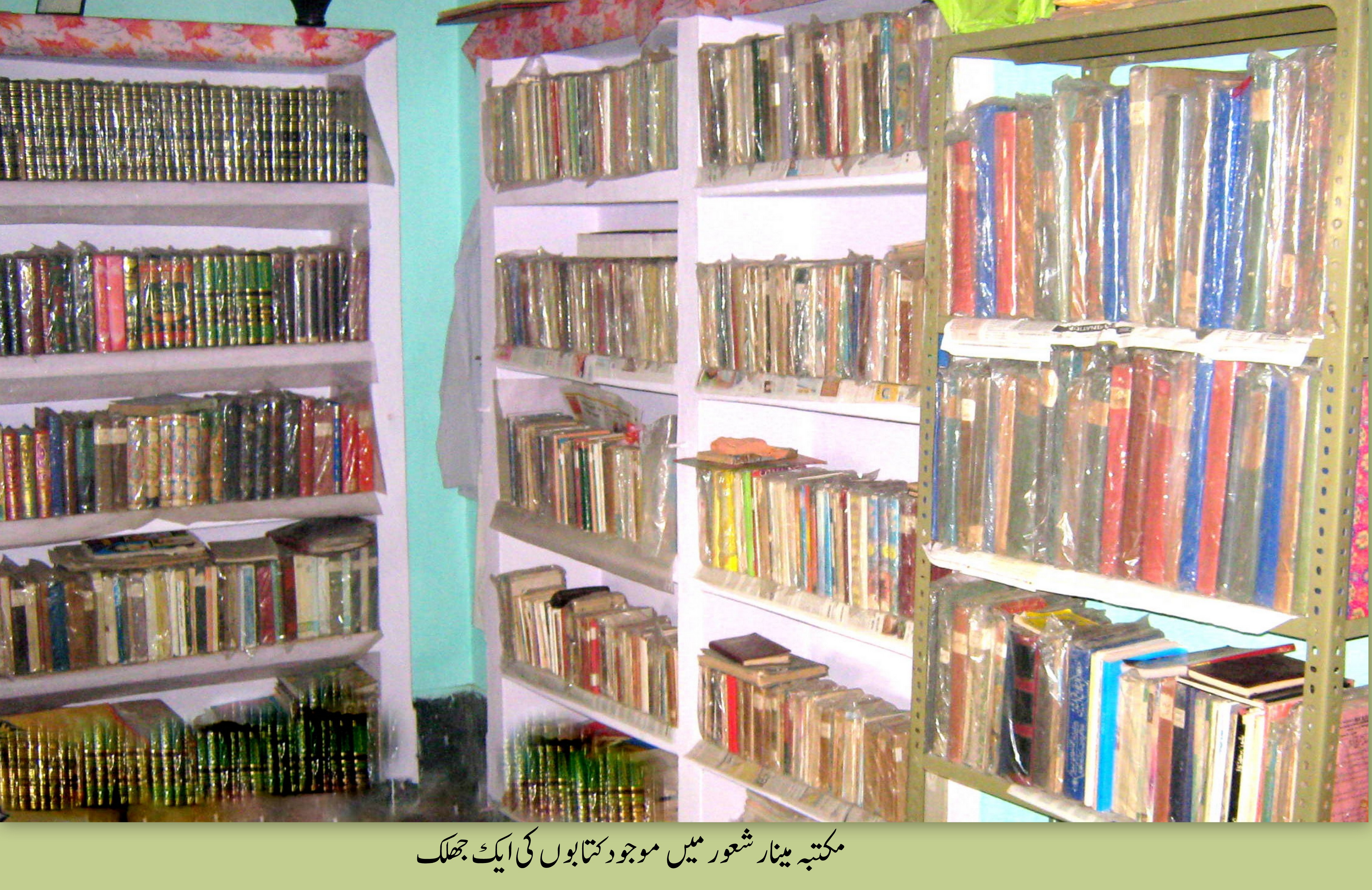 maktaba minare sha'oor liberary of syed ali akhtar rizvi in gopalpur siwan bihar india